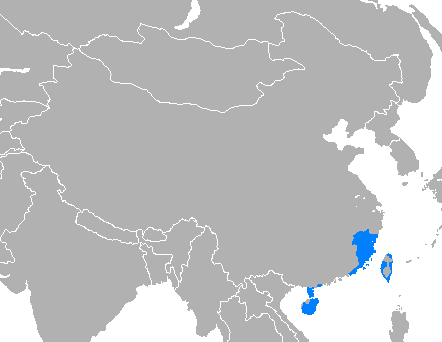 Min language distribution.